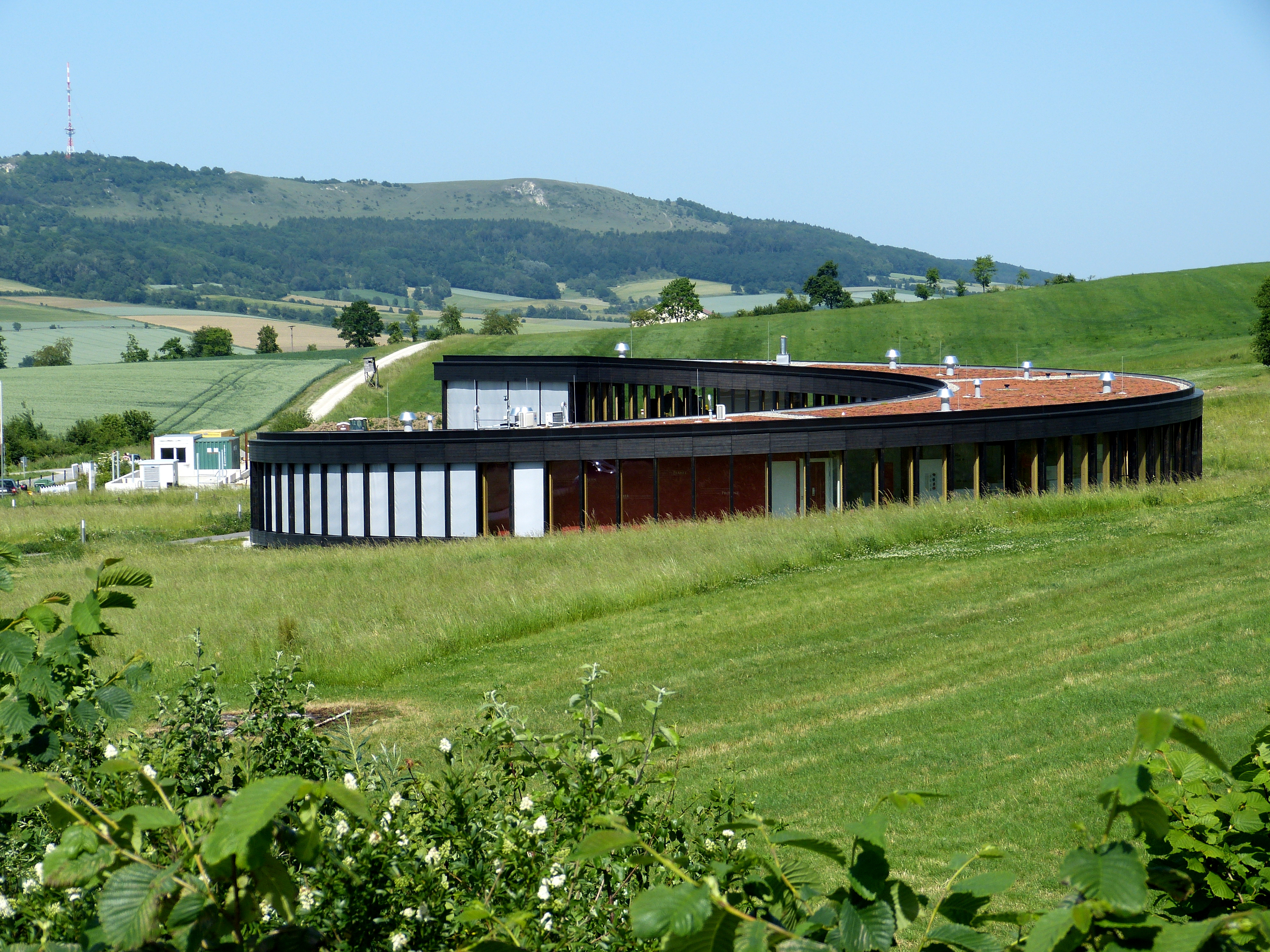 Weiltingen ( Bavaria ). Archaeological park Ruffenhofen: Museum ( Limeseum ).